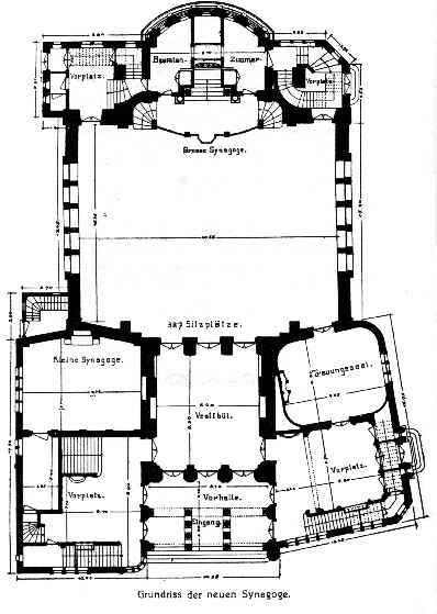 Synagogue of Bamberg (1910-1938) - Architect drawing